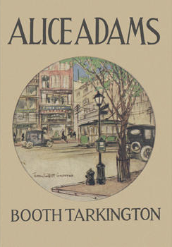 Front cover of the first-edition dust jacket of the novel Alice Adams by Booth Tarkington